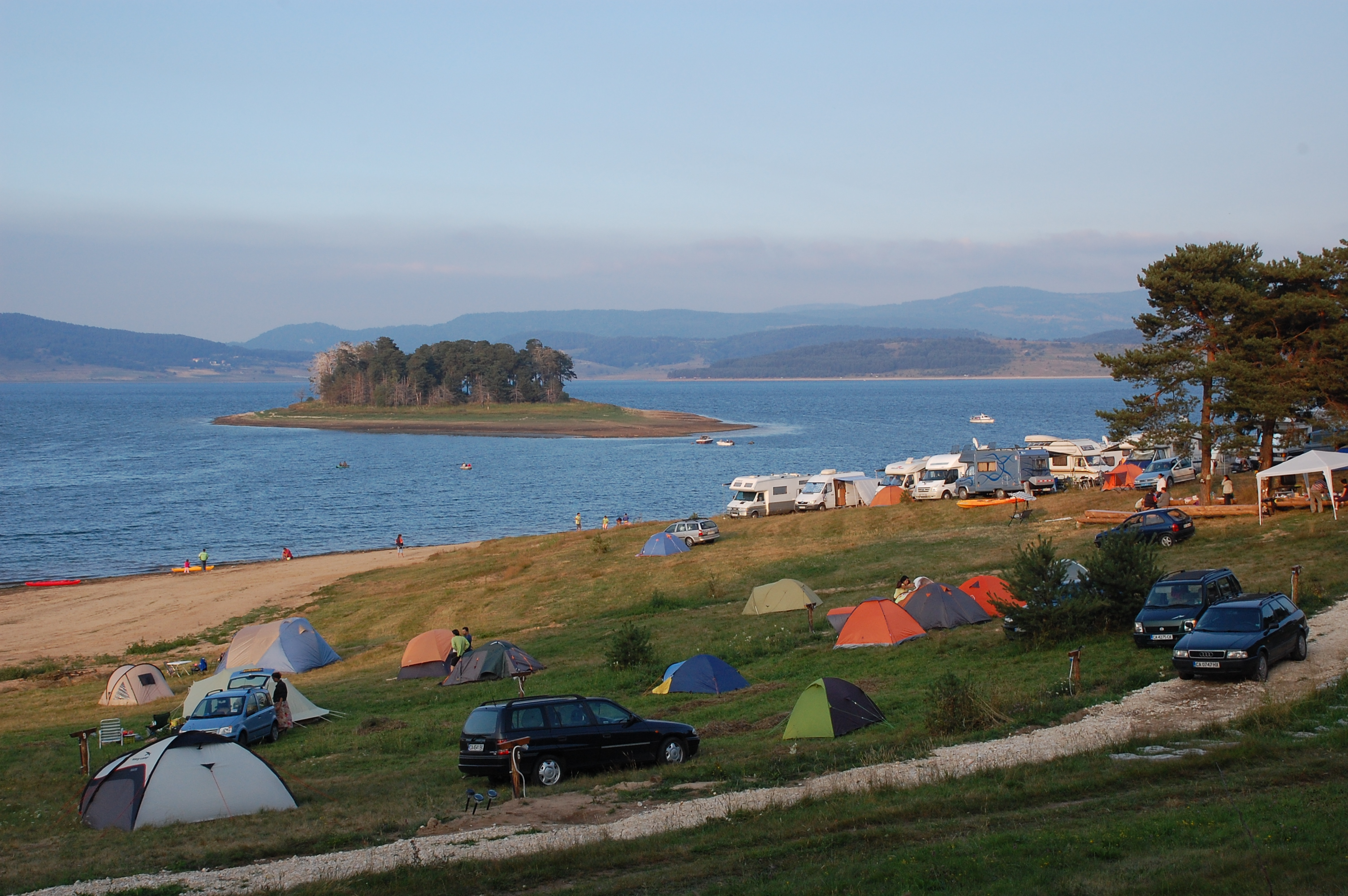 Eco Camping Batak